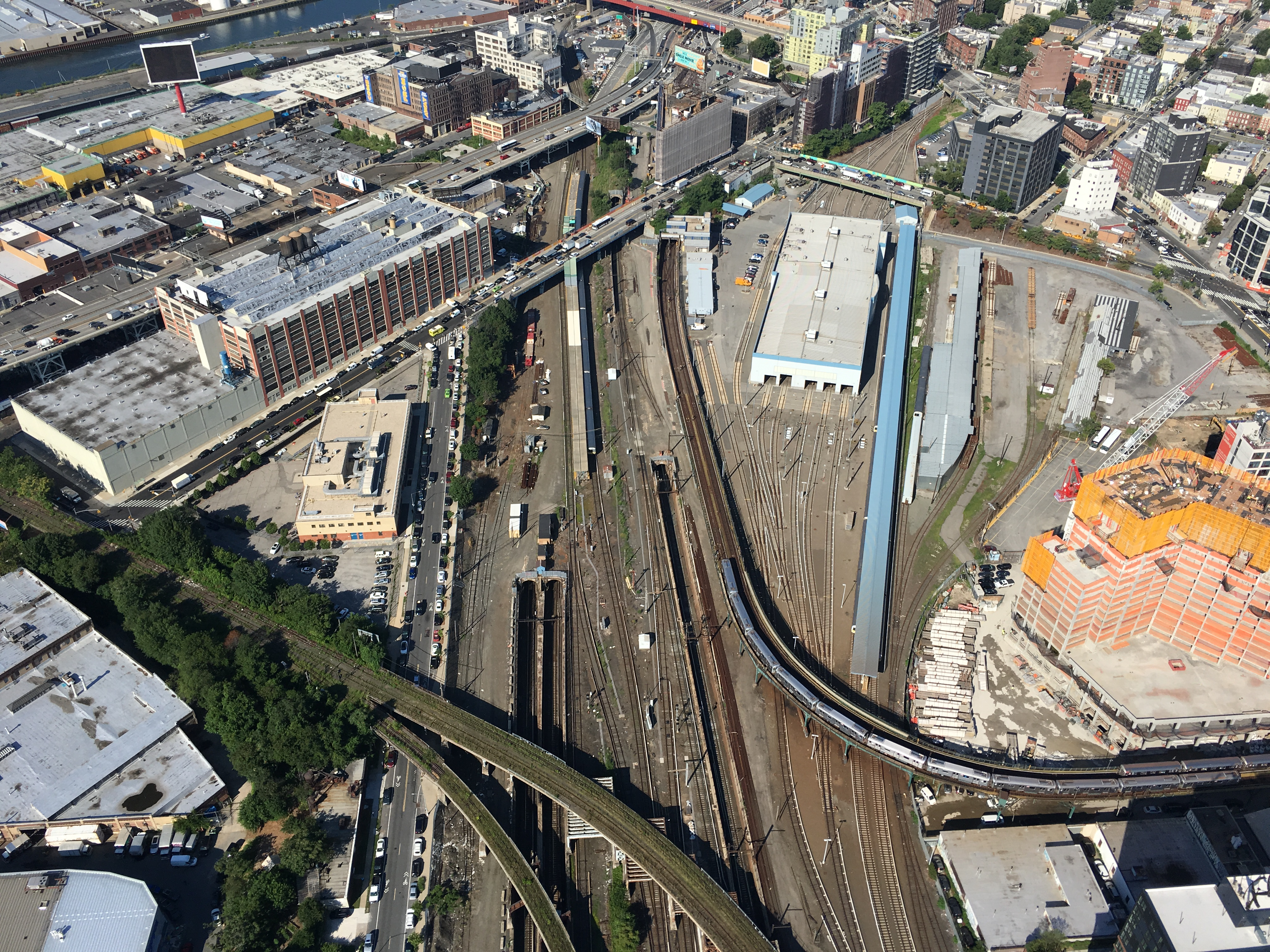 Photo of East River Tunnel Portals taken from a helicopter at 8:06 am on 7/31/17